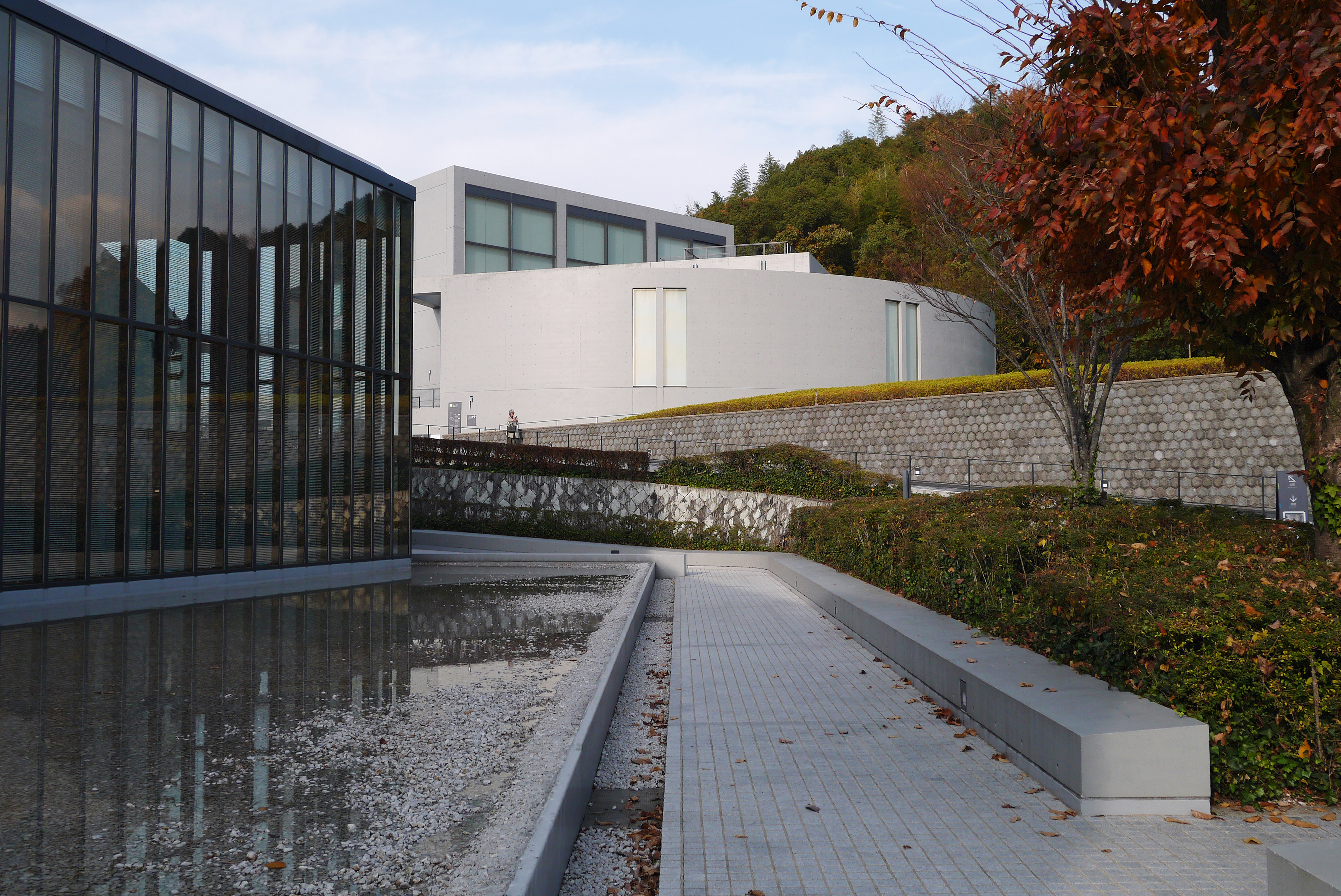 Himeji City Museum of Literature, Himeji, Hyogo prefecture, Japan Panasonic Lumix DMC-GF5